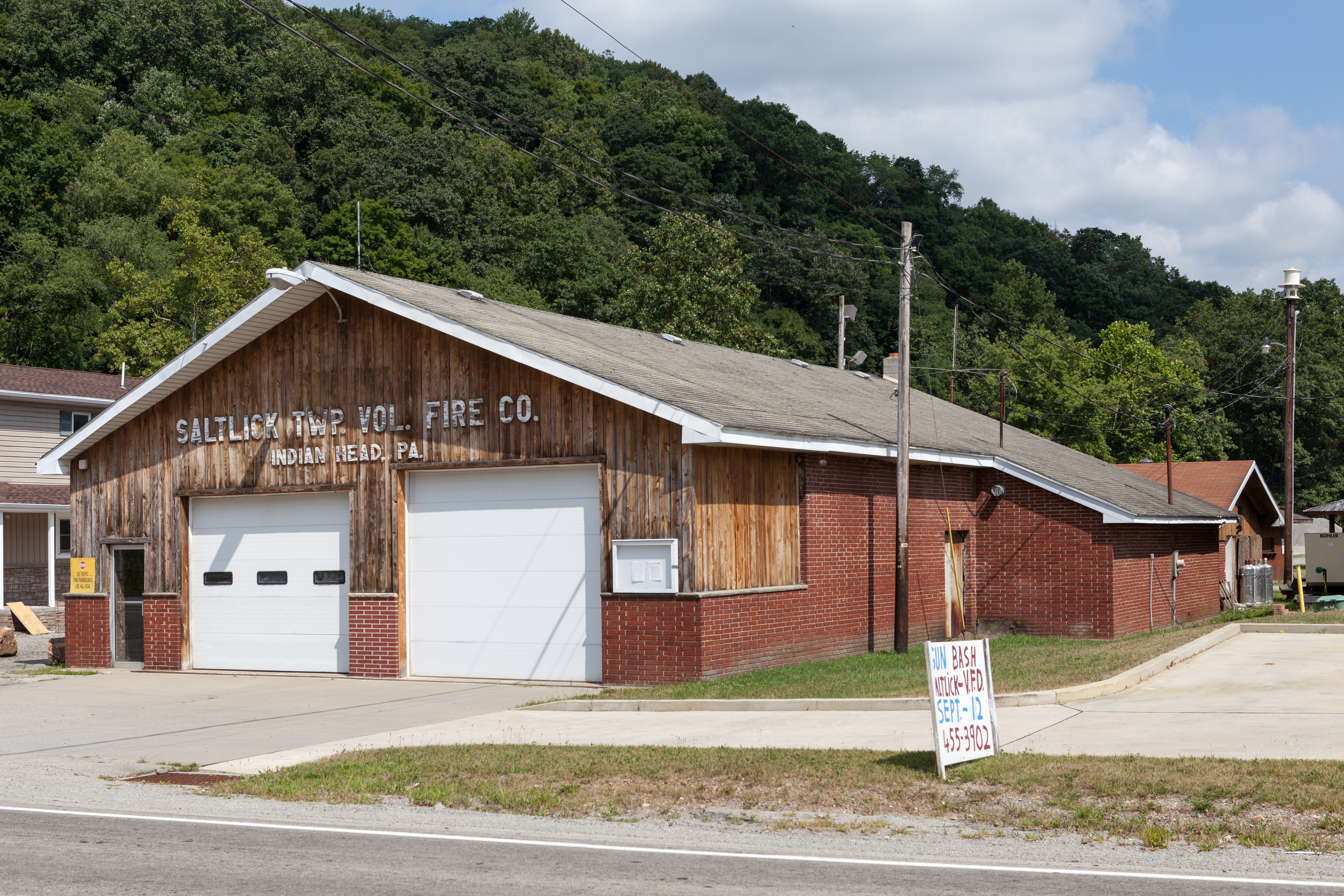 Saltlick Township Volunteer Fire Company on Indian Head Road in the village of Indian Head, Saltlick Township, Fayette County, Pennsylvania.